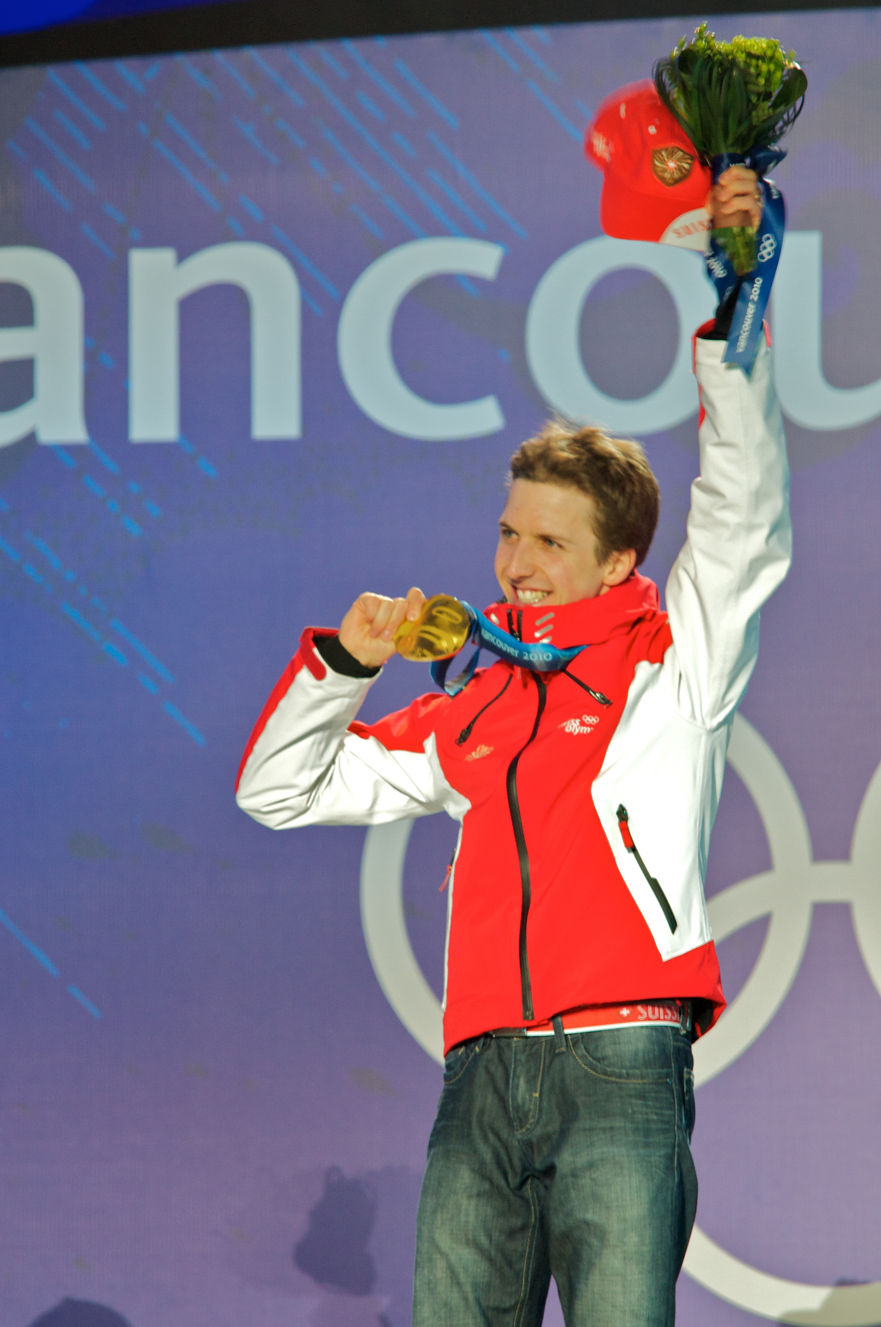 The large hill individual ski jumping medal ceremony at Whistler on Day 9 of the Vancouver 2010 Winter Olympics.